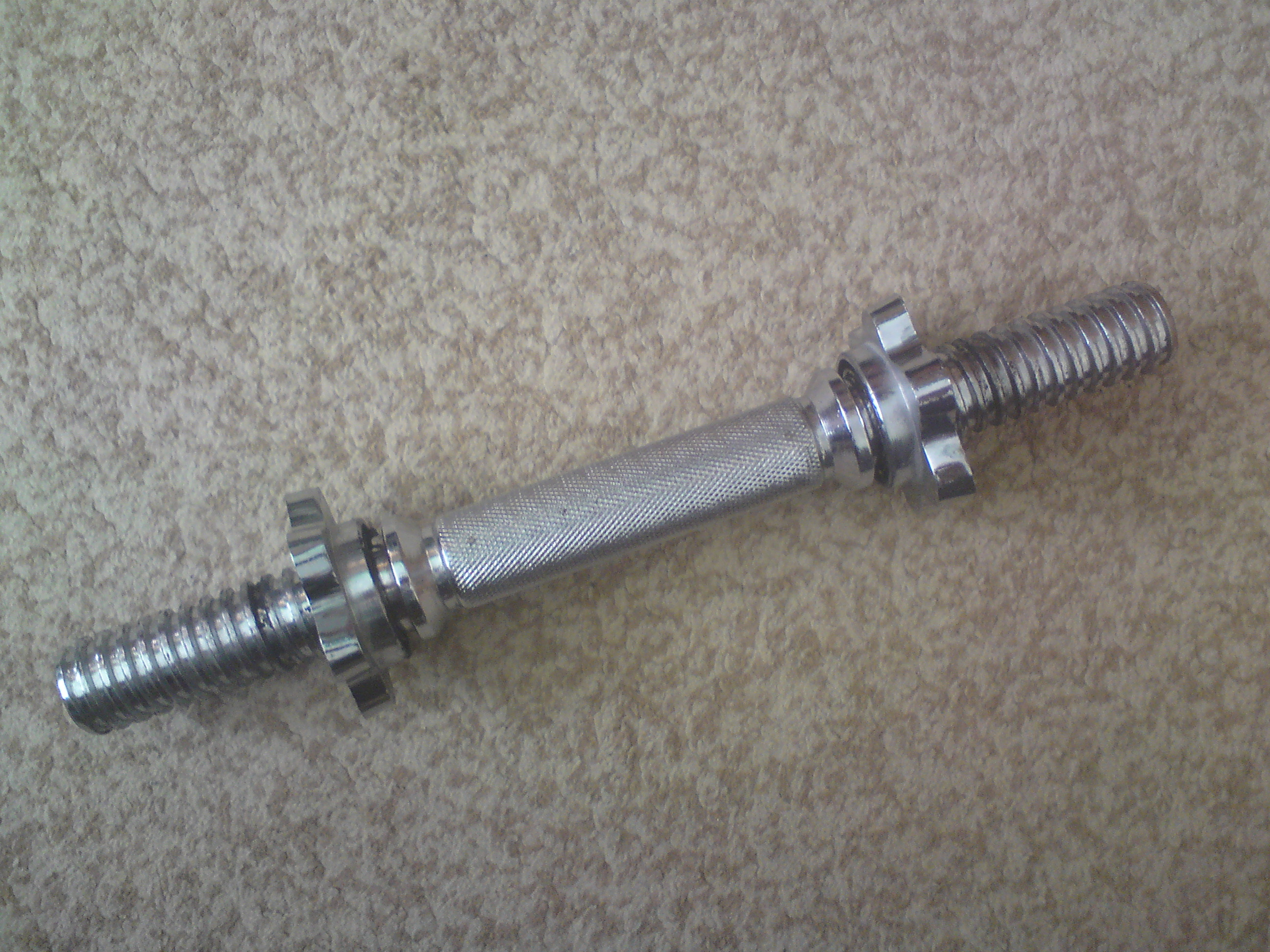 Part of dumbbell